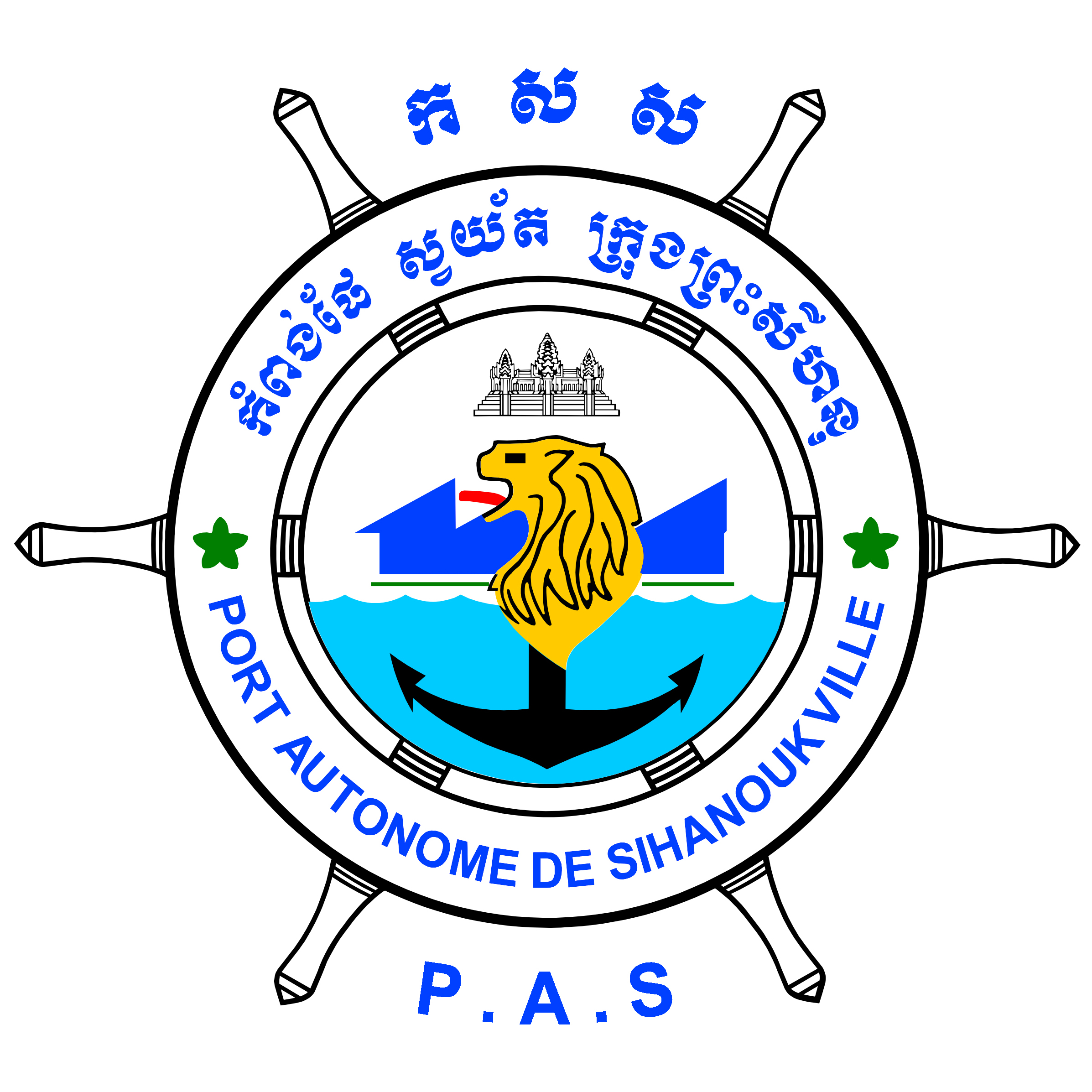 Sihanoukville Autonomous Port Official Logo